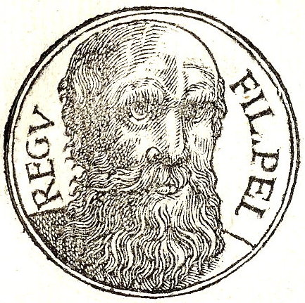 Reu or Ragau (Hebrew: רְעוּ, Re'u "Behold") in Genesis was the son of Peleg and the father of Serug, thus being Abraham's great-great-grandfather. This picture is a much later interpretation of what was thought of about Rah/Reu. It cannot be accepted as accurate only as a biased interpretation.